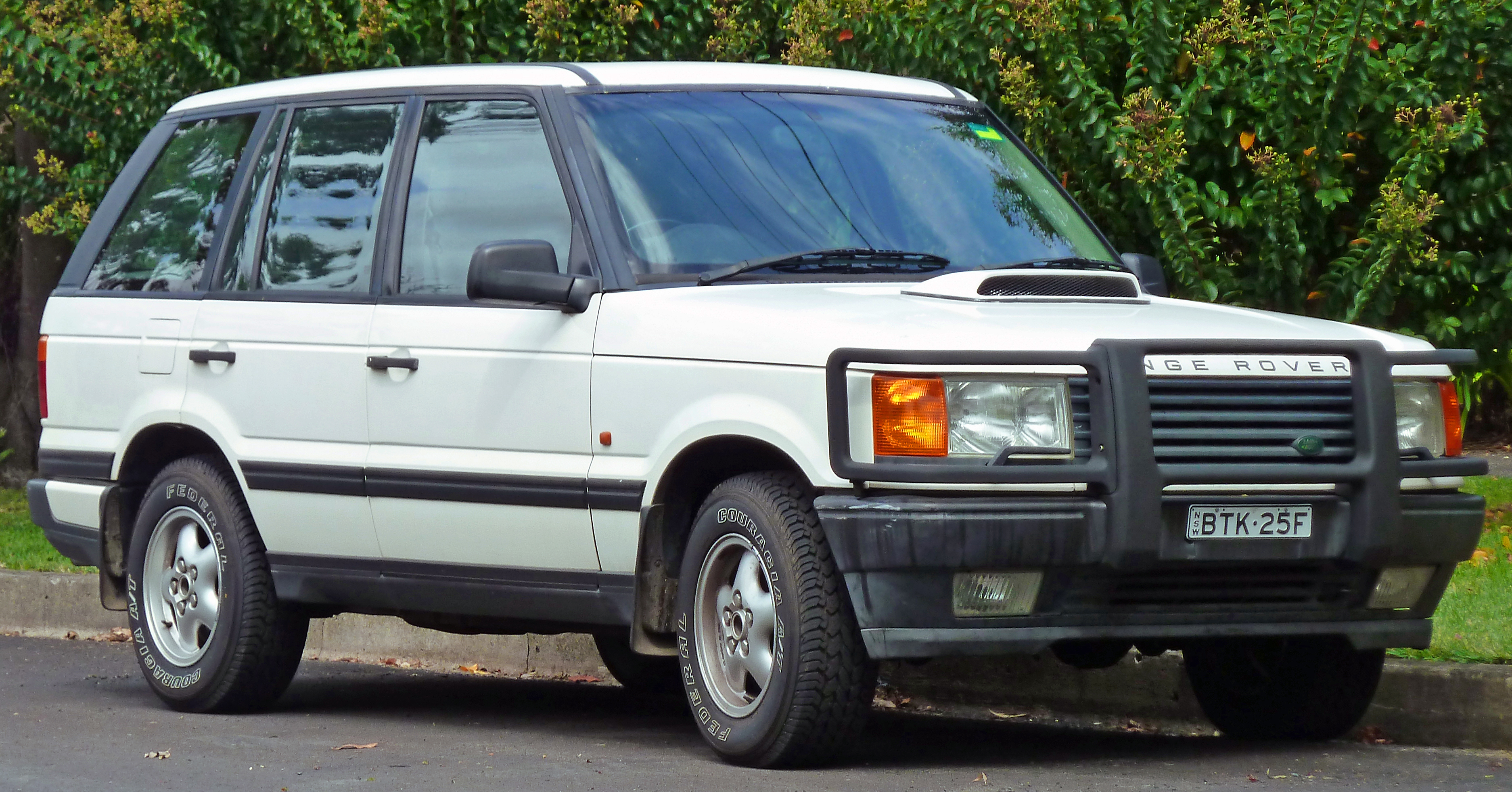 1995 Land Rover Range Rover (P38A) 4.6 HSE wagon. Photographed in Lindfield, New South Wales, Australia.